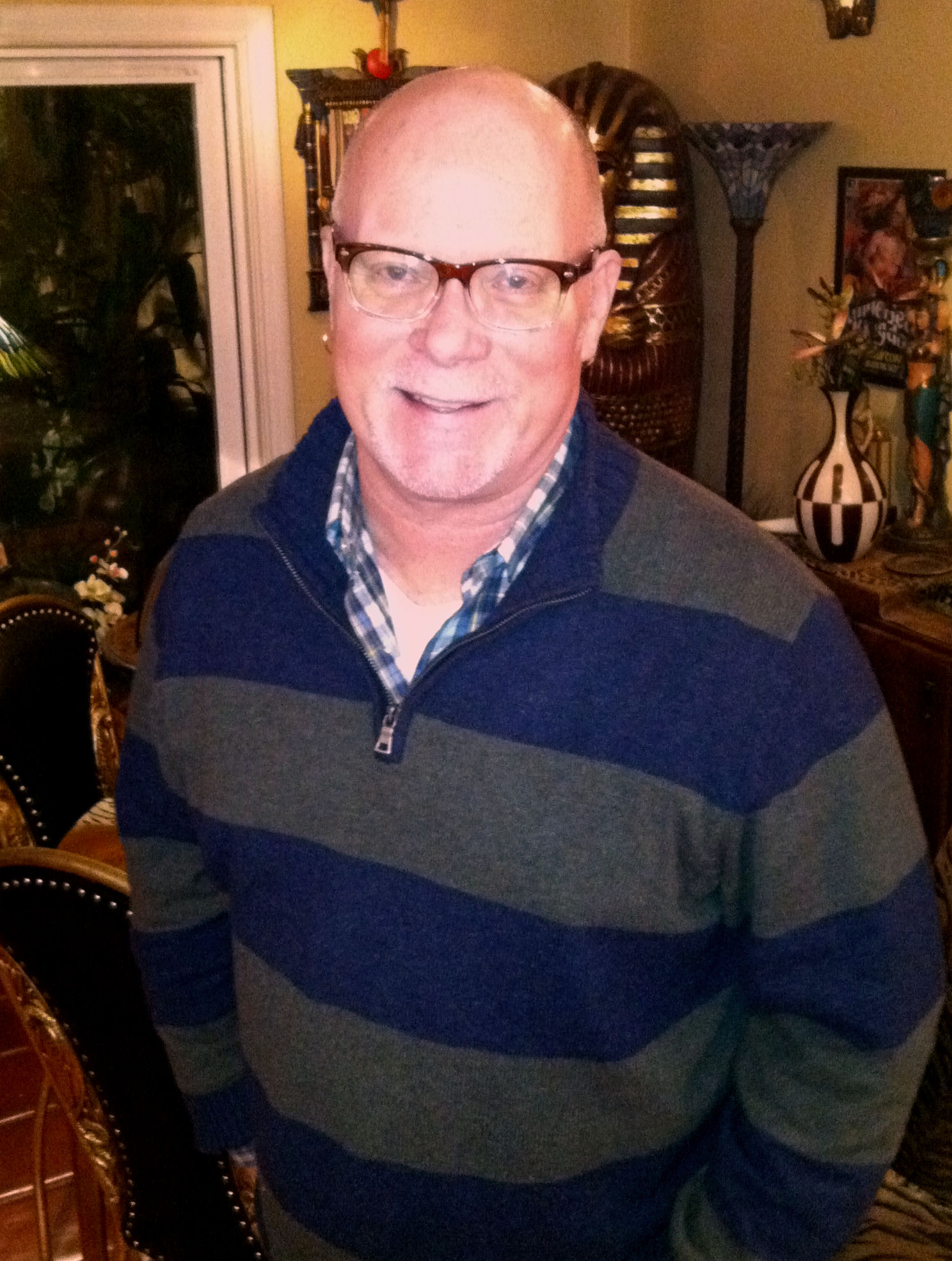 Head shot of Sam Irvin, self-portrait taken by Sam Irvin